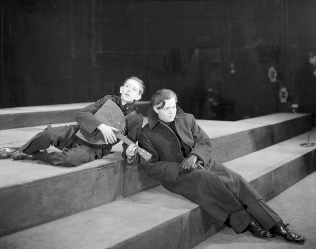 Promotional photograph of the Mercury Theatre production of Caesar, featuring (from left) Arthur Anderson as Lucius and Orson Welles as Brutus, in the tent scene